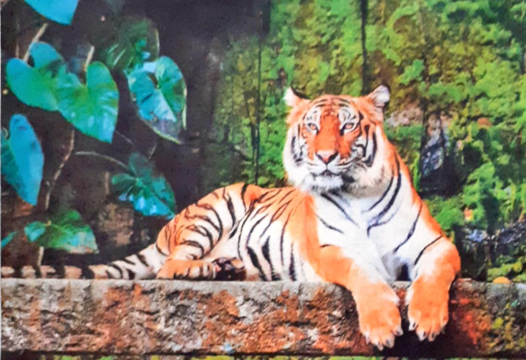 The National animal of India should be protected and the best way is by creating more and larger forests